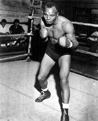 Jersey Joe Walcott in training before the match versus Elmer "Violent" Ray, 16 september 1937.